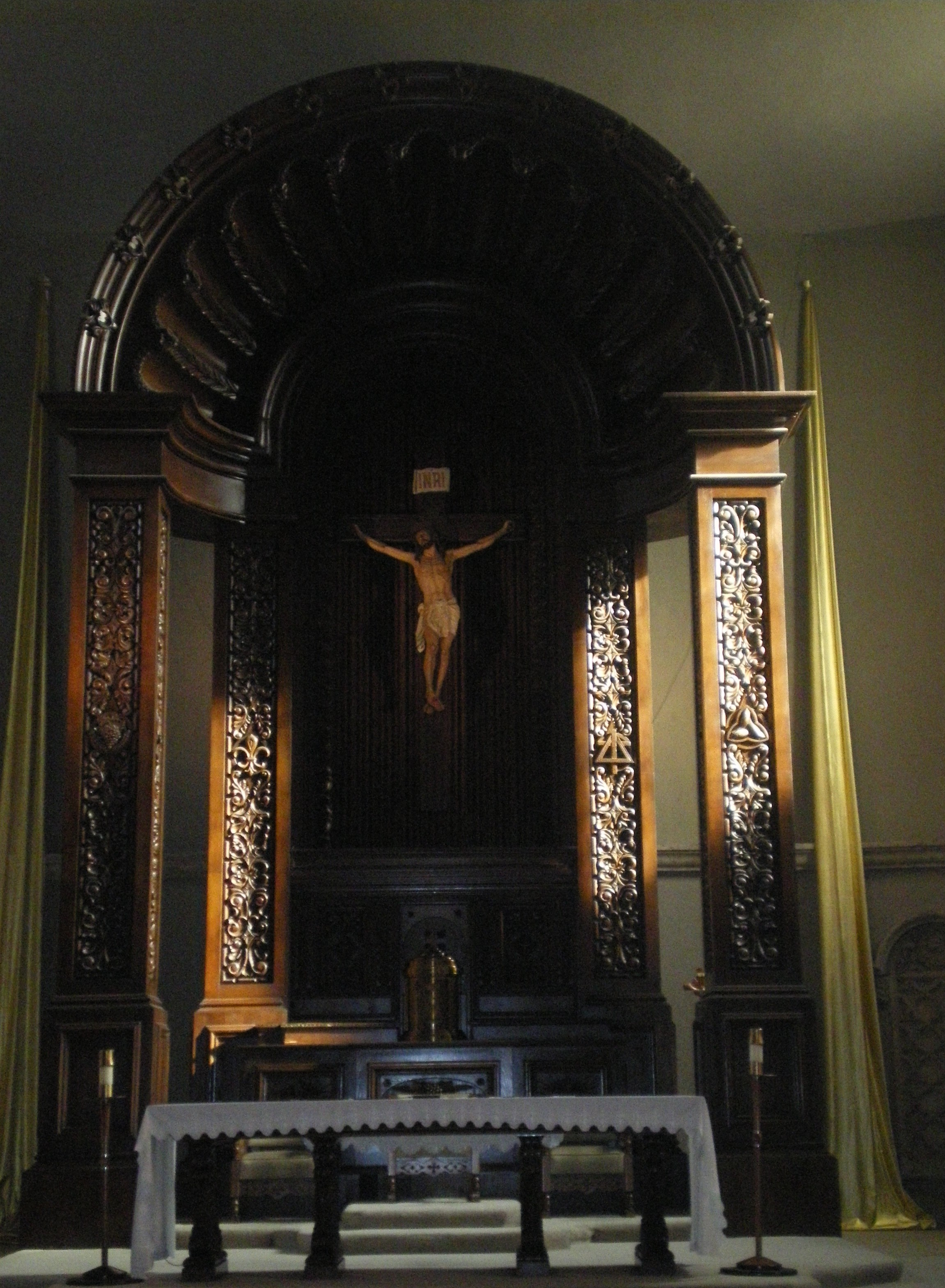 Altar at St. Charles Borromeo Catholic Church (North Hollywood) St. Charles Borromeo Catholic Church, Lankershim & Moorpark, North Hollywood, Los Angeles, California